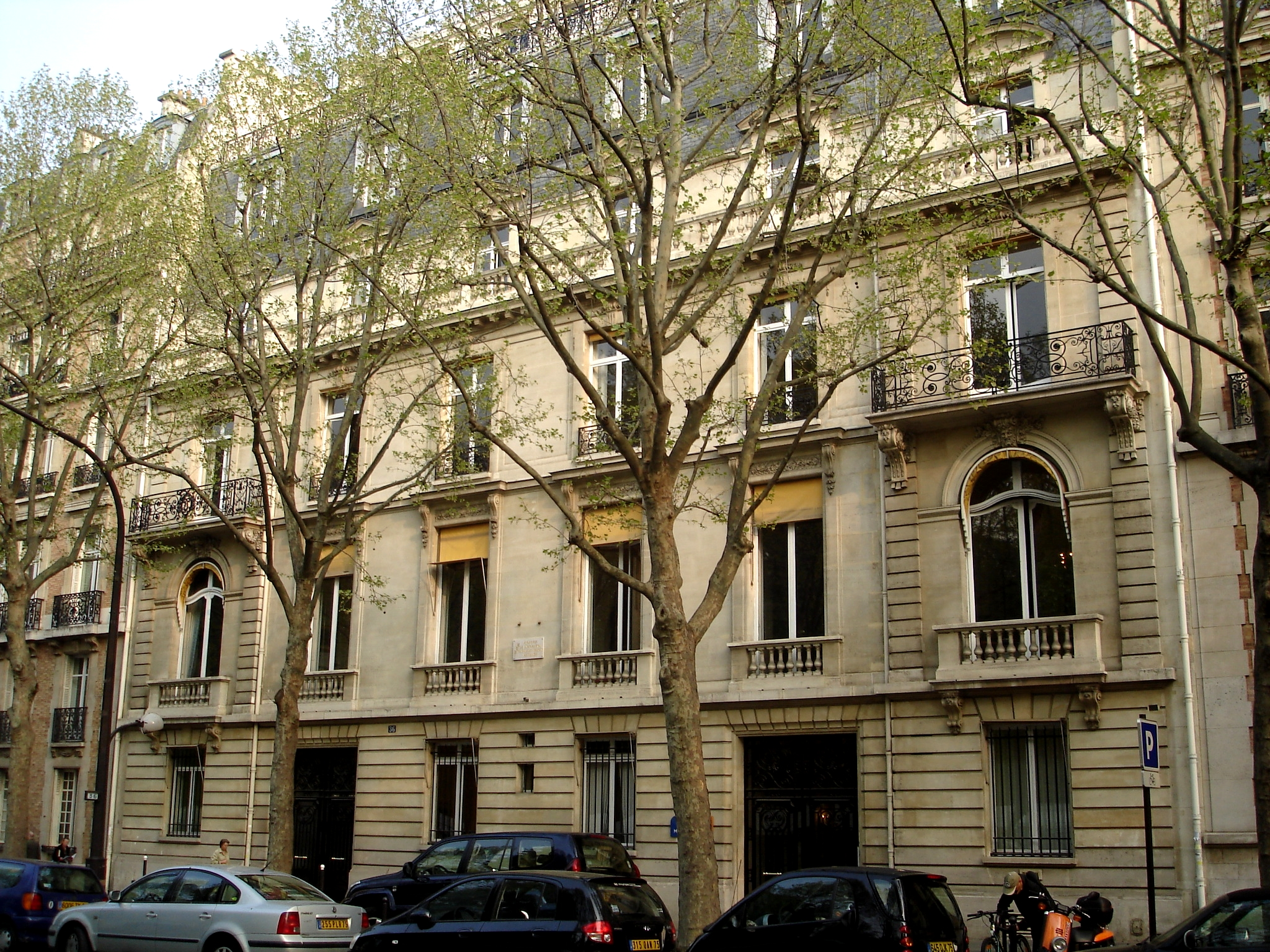 Building in Paris 36 boulevard de Courcelles. Former embassy of Spain.